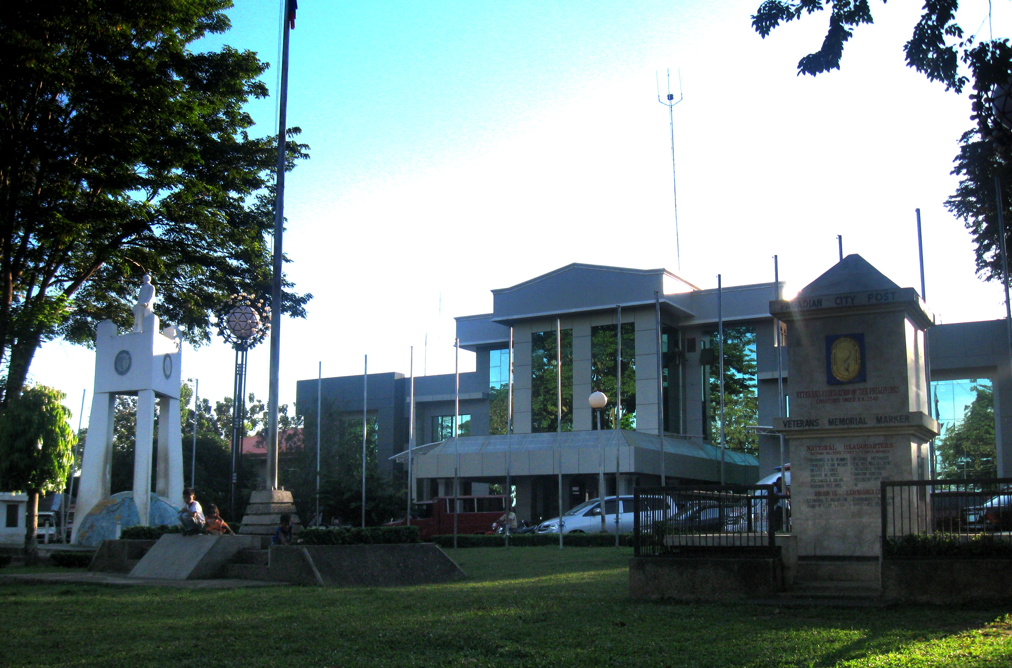 City Hall of Pagadian